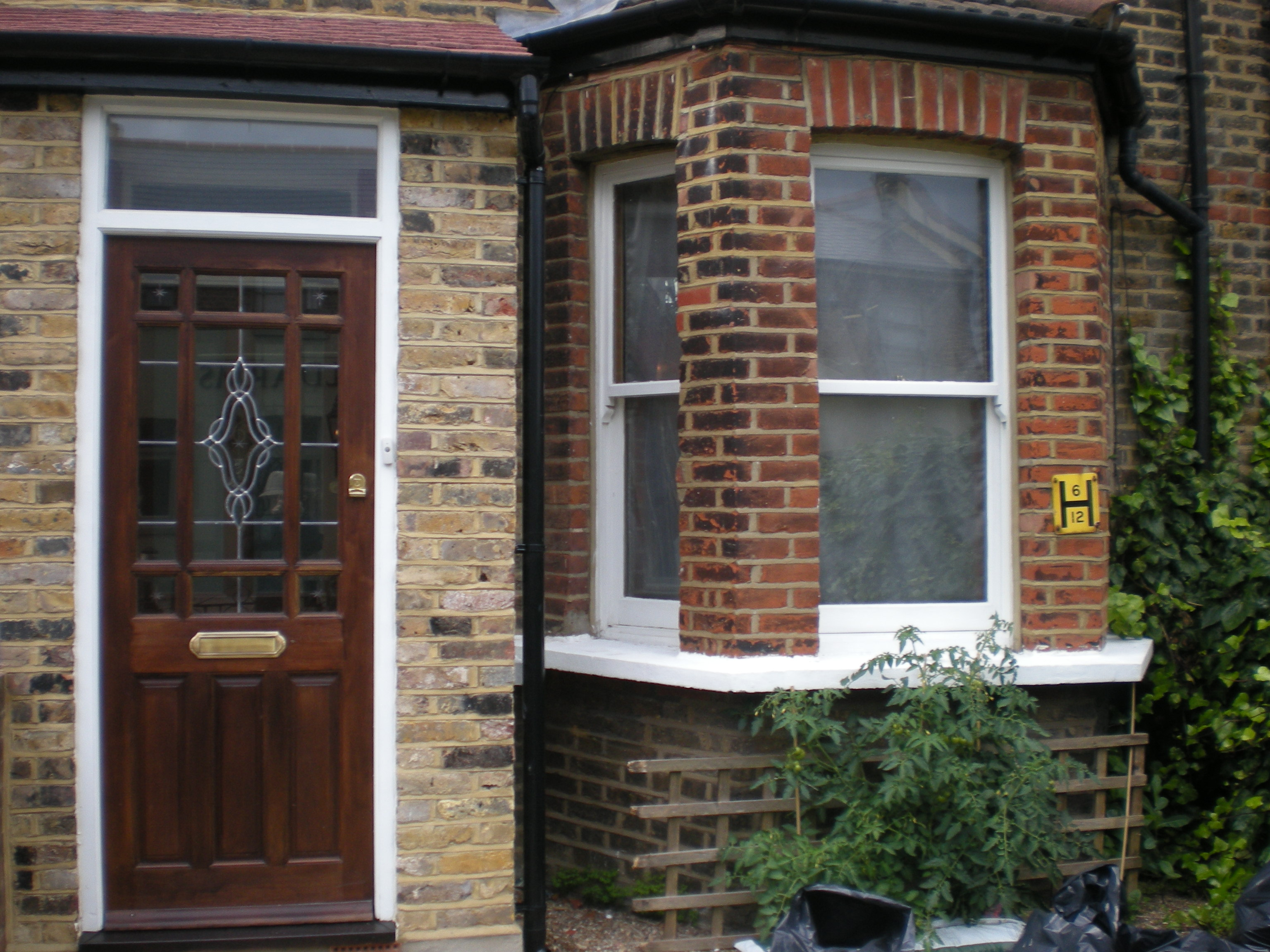 A photo of the childhood house of Ray and Dave Davies (of British rock band The Kinks), No. 6, Denmark Terrace, Fortis Green, Muswell Hill, London. Taken by me on a walk down Fortis Green road, on July 12th.